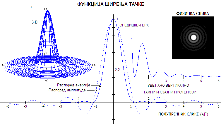 ГРАФИК ФУНКЦИЈЕ ШИРЕЊА ТАЧКЕ